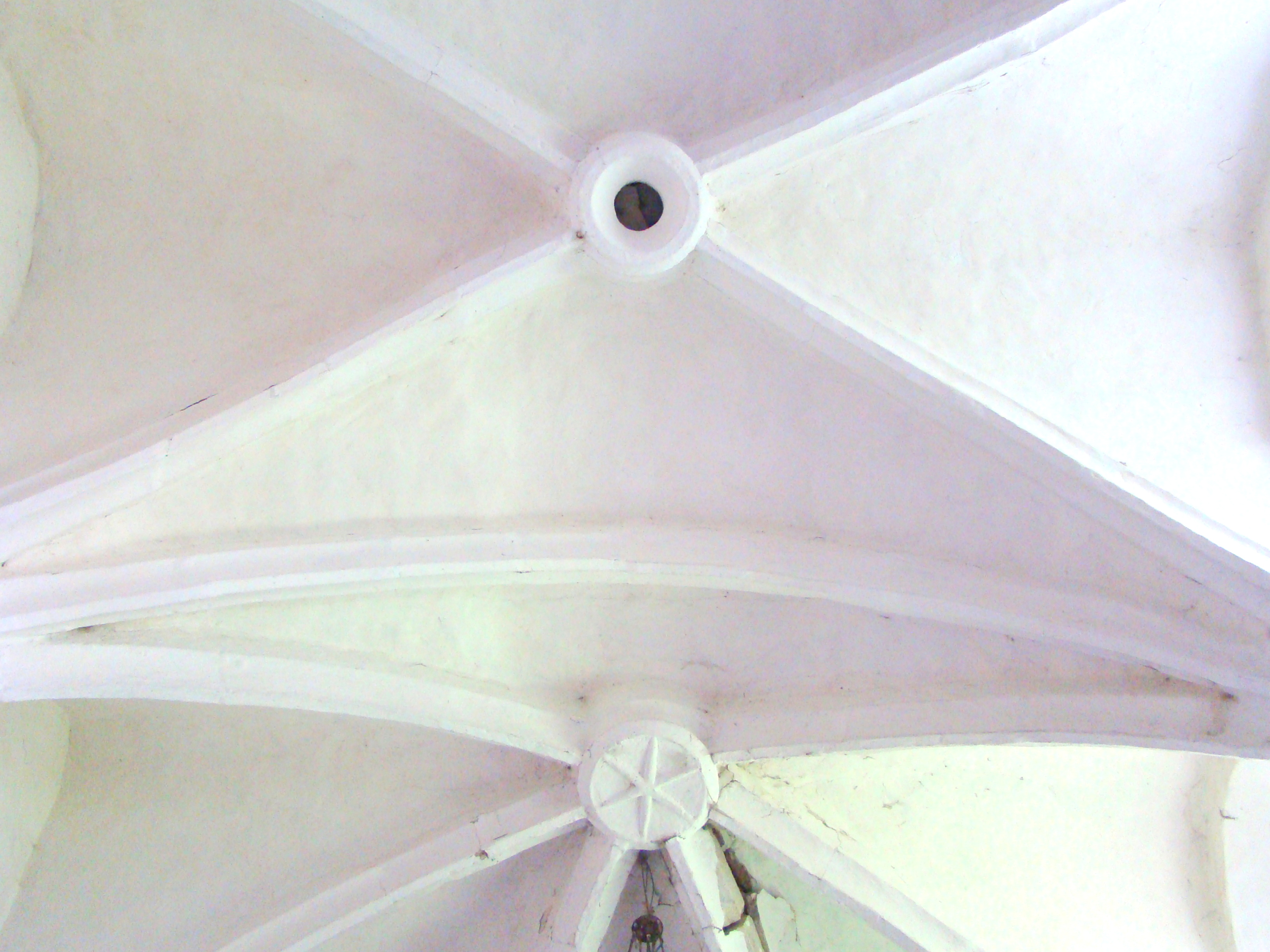 Lutheran church in Beia, Braşov county, Romania